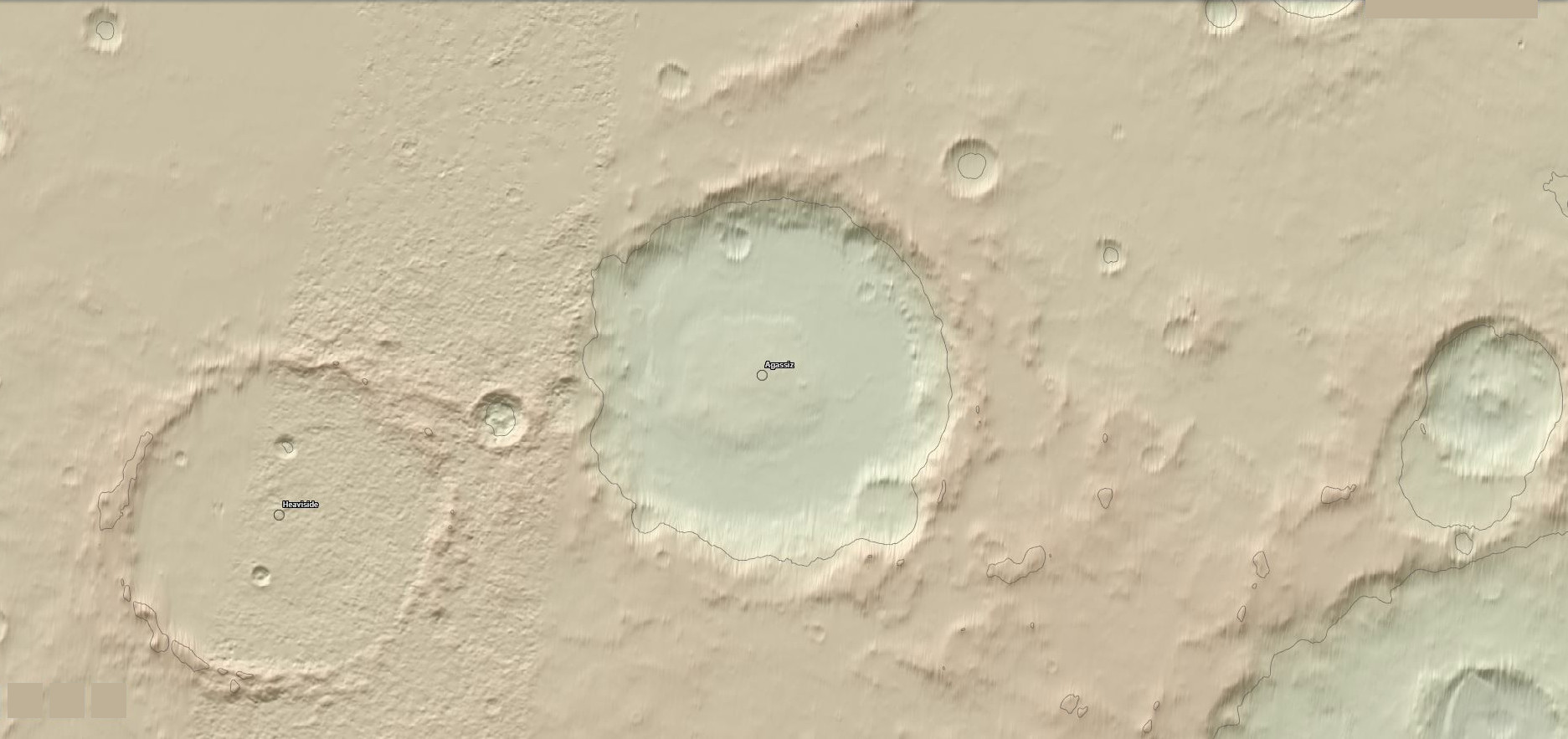 A GIS DEM rendering of Agassiz Crater on Mars.